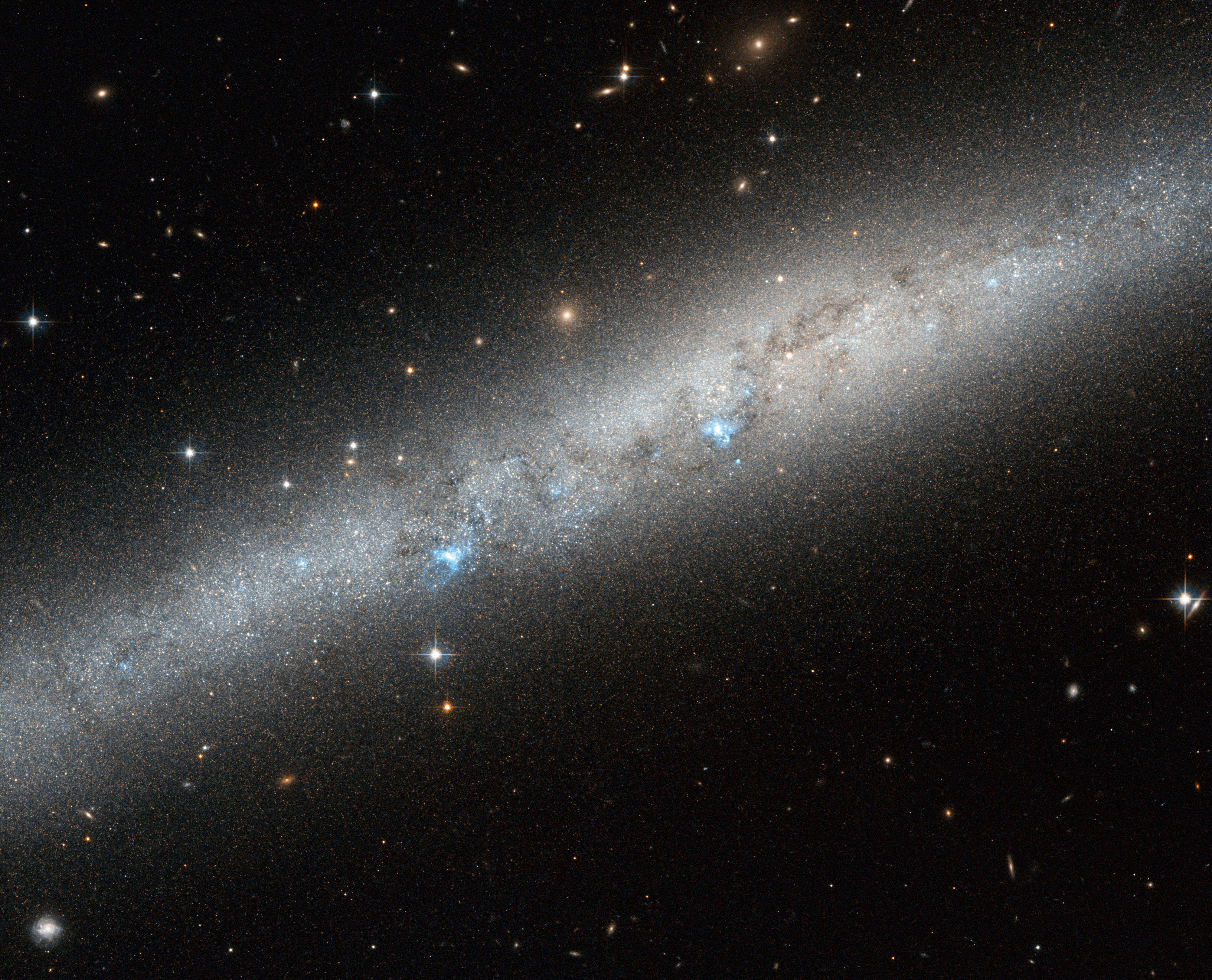 This image, speckled with blue, white, and yellow light, shows part of the spiral galaxy IC 5052. Surrounded by distant stars and galaxies, it emits a bright blue-white glow which highlights its narrow, intricate structure. It is viewed side-on in the constellation of Pavo (The Peacock), in the southern sky. When spiral galaxies are viewed from this angle, it is very difficult to fully understand their properties and how they are arranged. IC 5052 is actually a barred spiral galaxy – its pinwheeling arms do not begin from the centre point but are instead attached to either end of a straight "bar" of stars that cuts through the galaxy's middle. Approximately two thirds of all spirals are barred, including the Milky Way. Bursts of pale blue light are visible across the galaxy's length, partially blocked out by weaving lanes of darker gas and dust. These are pockets of extremely hot newborn stars. The bars present in spirals like IC 5052 are thought to help these formation processes by effectively funnelling material from the swirling arms inwards towards these hot stellar nurseries. A version of this image was submitted to the Hubble's Hidden Treasures image processing competition by contestant Serge Meunier.